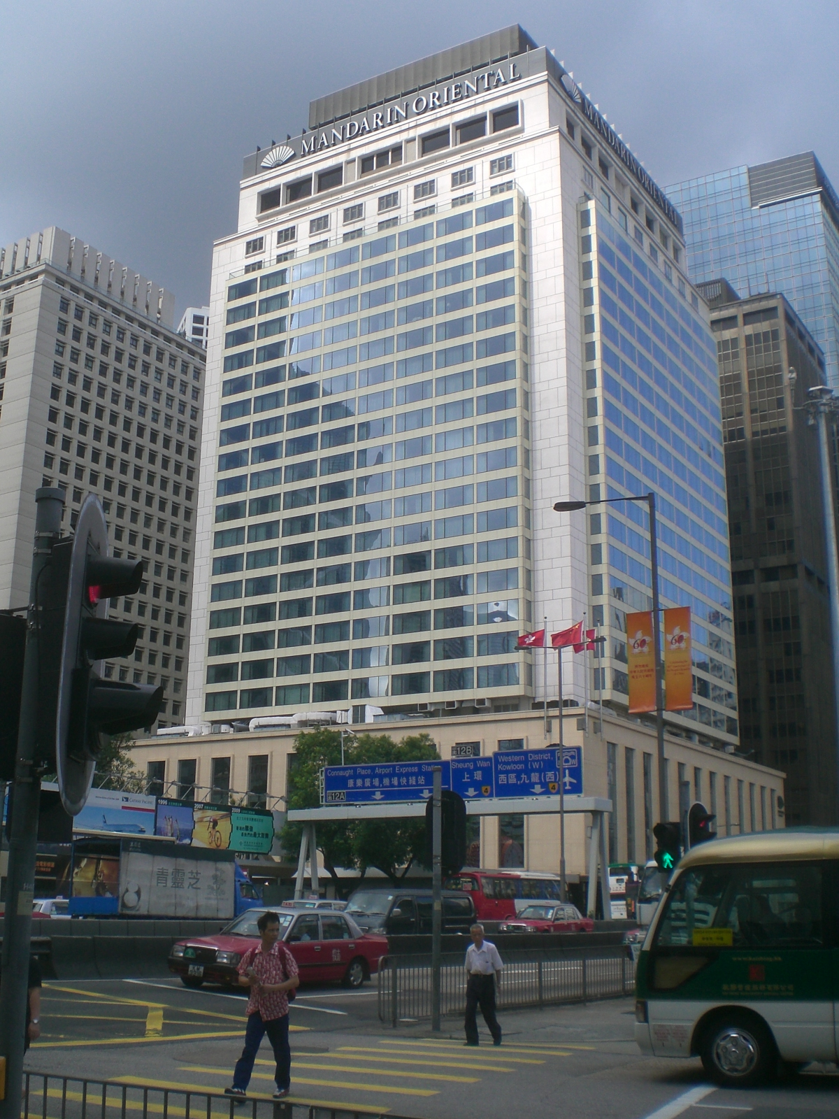 中環 干諾道中 香港文華東方酒店